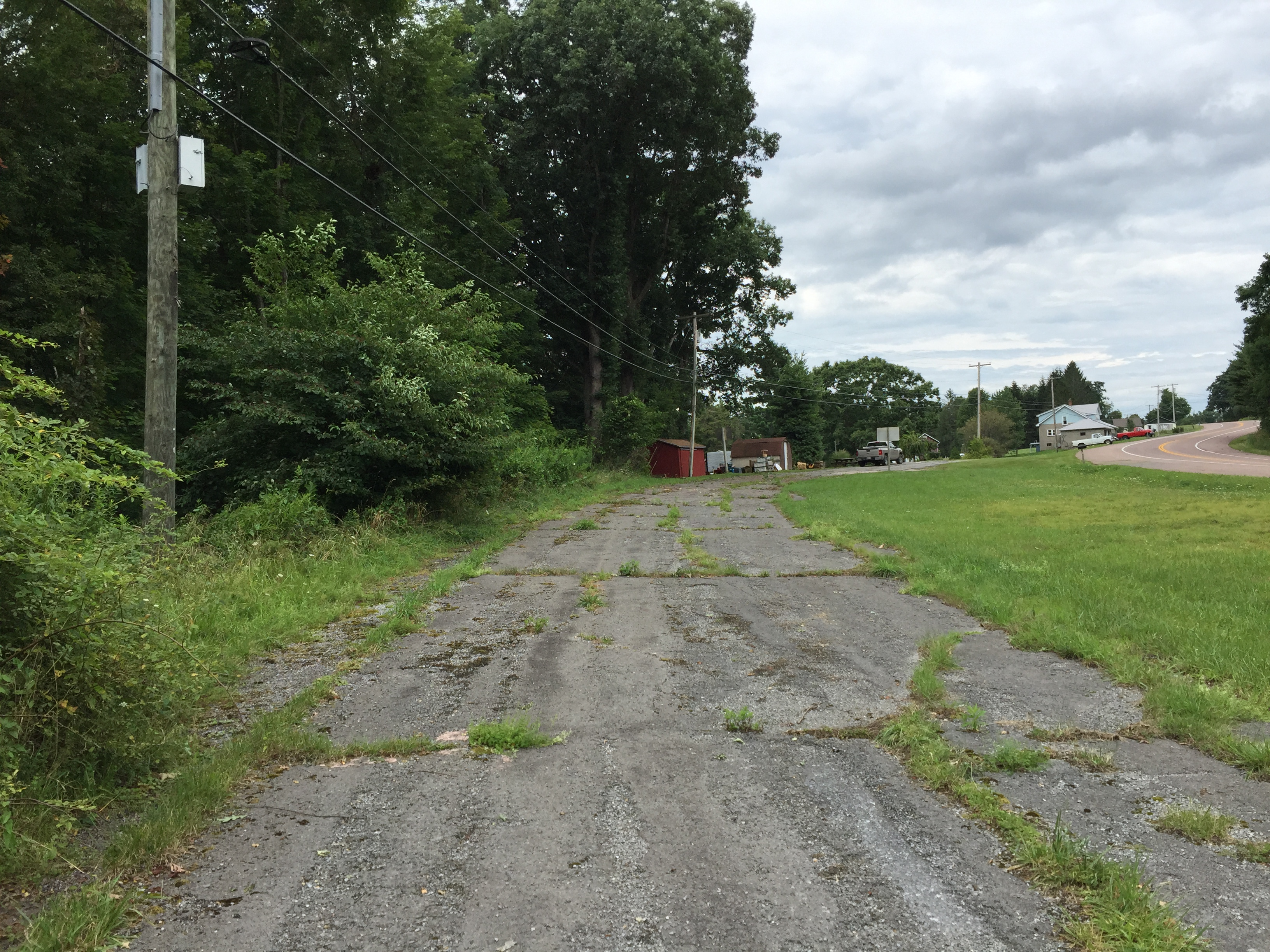 View west along Maryland State Route 827 at Maryland State Route 39 (Hutton Road) in Crellin, Garrett County, Maryland